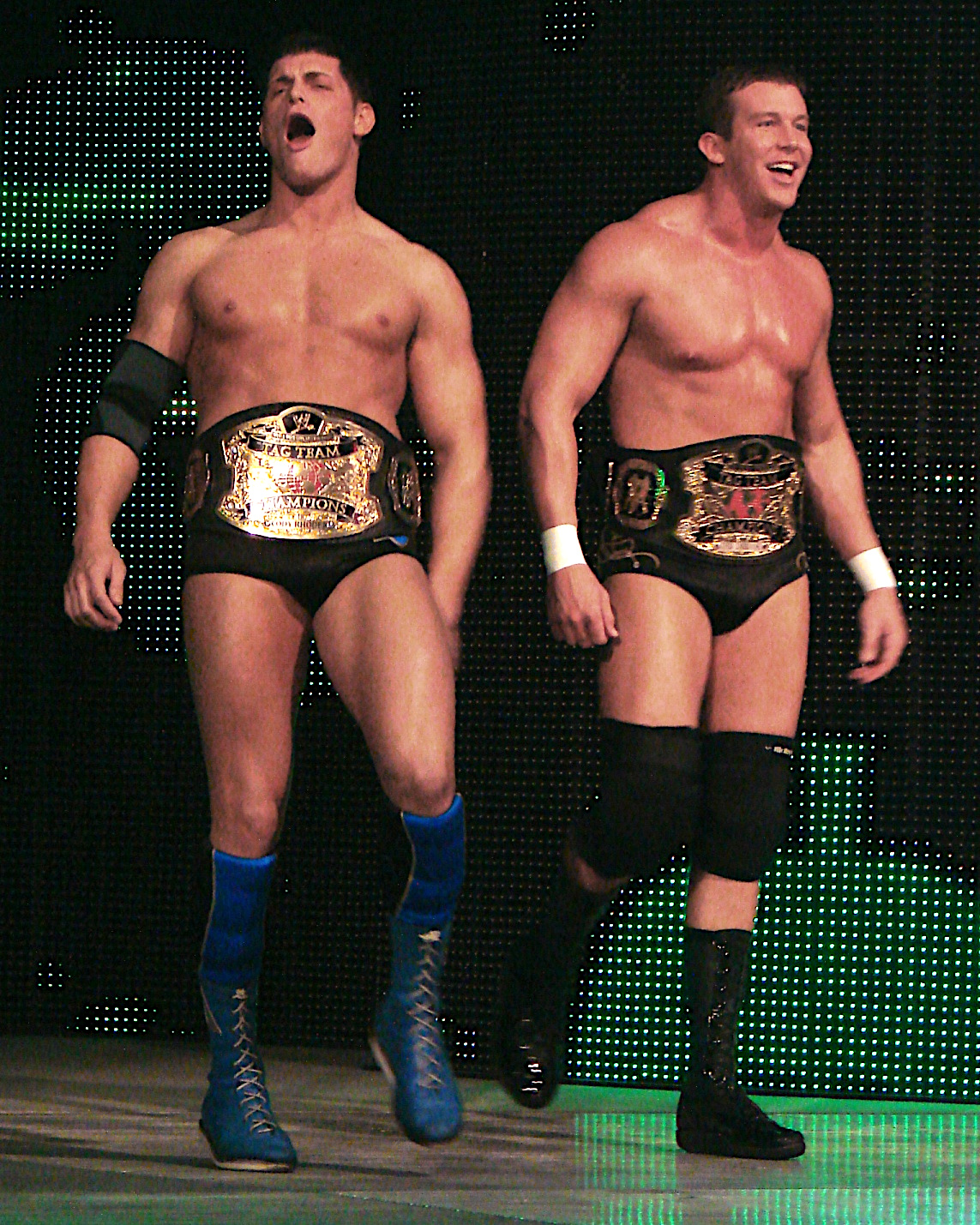 Ted Dibiase and Cody Rhodes at WWE Raw. Allstate Arena; Rosemont, Illinois; Taken by myself, rotated, cropped, and brightened.